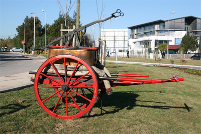 AHBVPA-Carroça